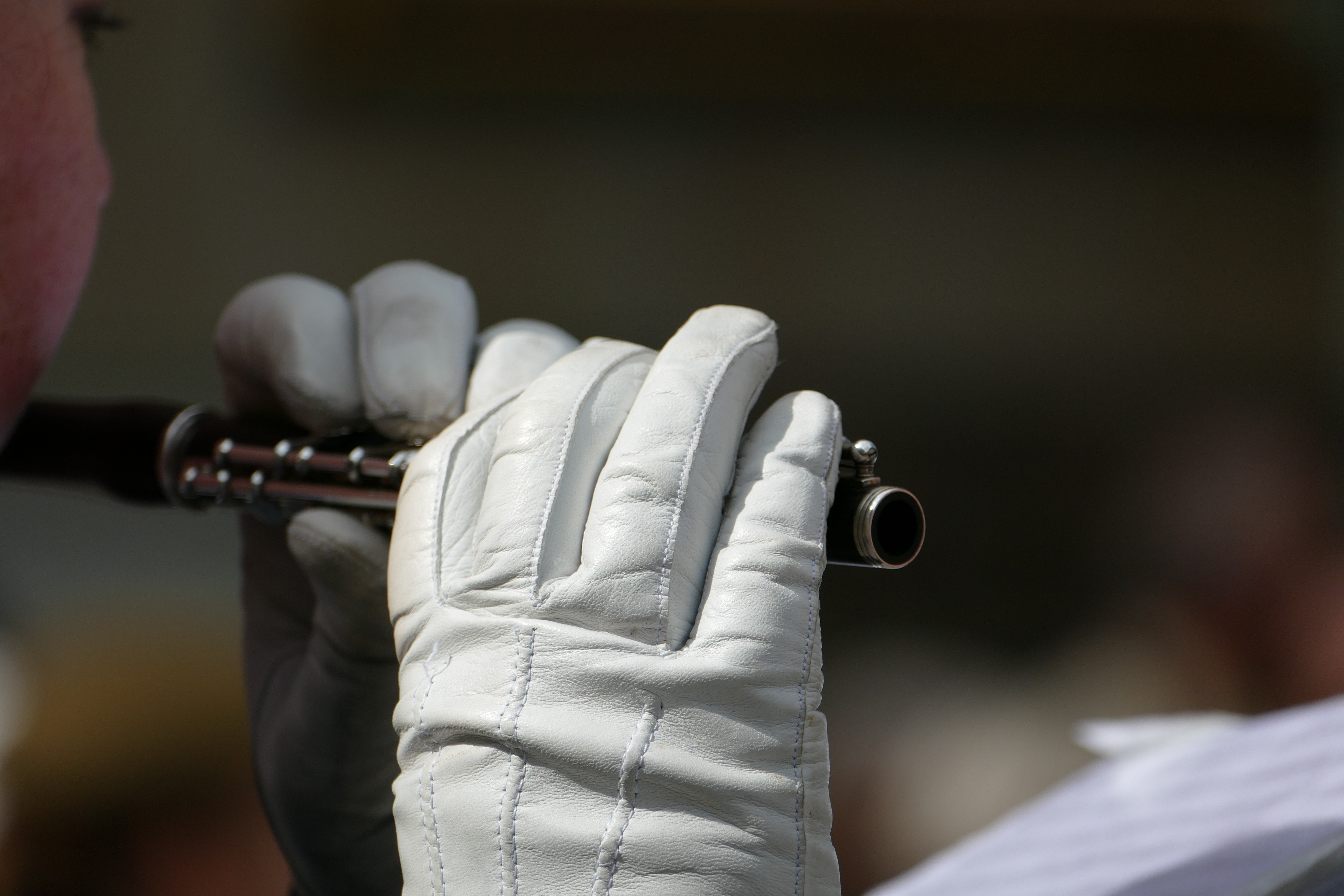 Military orchestra in front of the Stockholm Palace - piccolo player